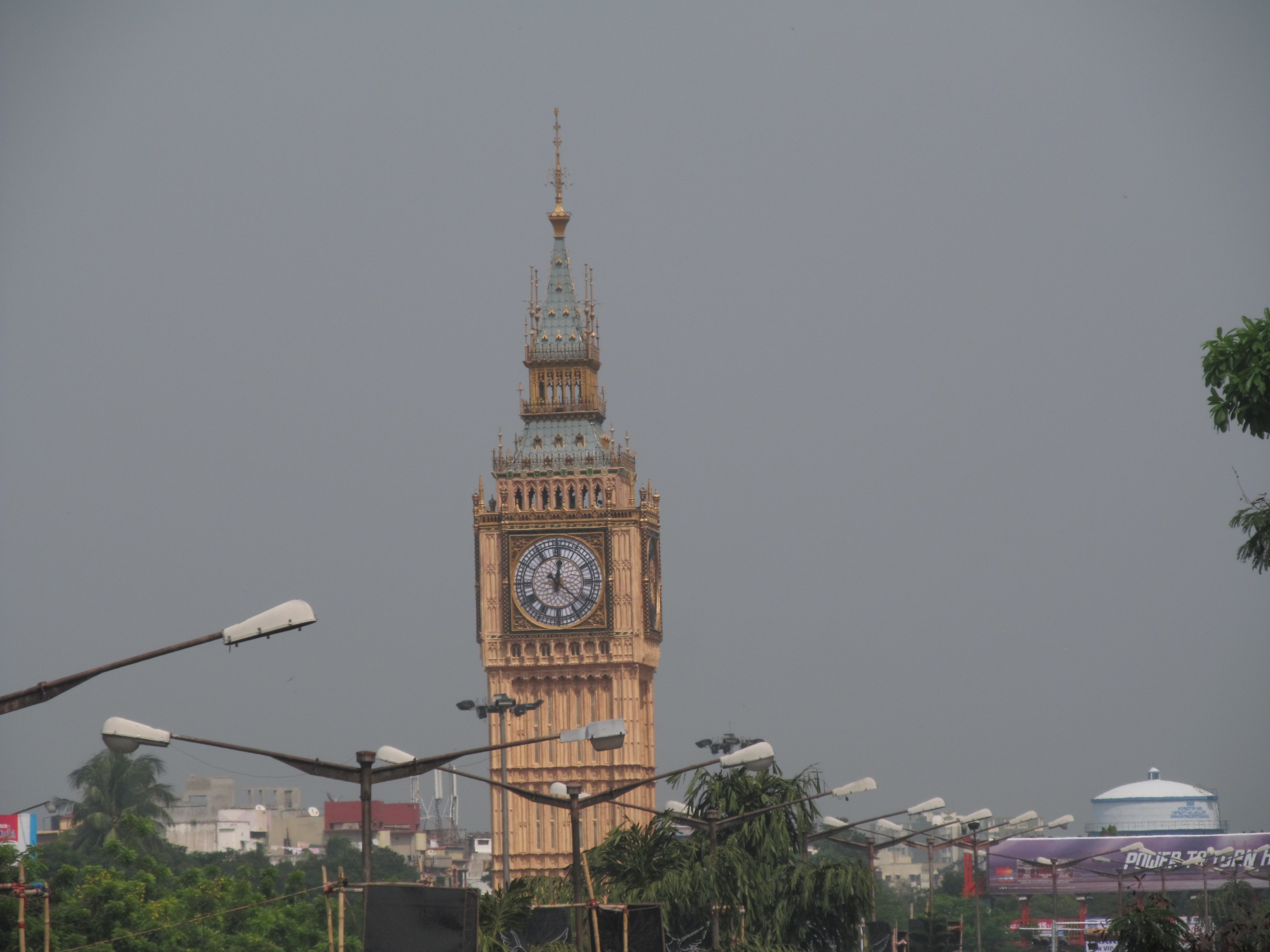 KOLKATA TIME ZONE -- new 80 feet clock tower erected in the VIP ROAD-LAKETOWN xing, Kolkata,India. A miniature replica of the famous Big Ben of London. Inaugurated by Hon'ble Chief Minister of West Bengal,Miss Mamata Banerjee.